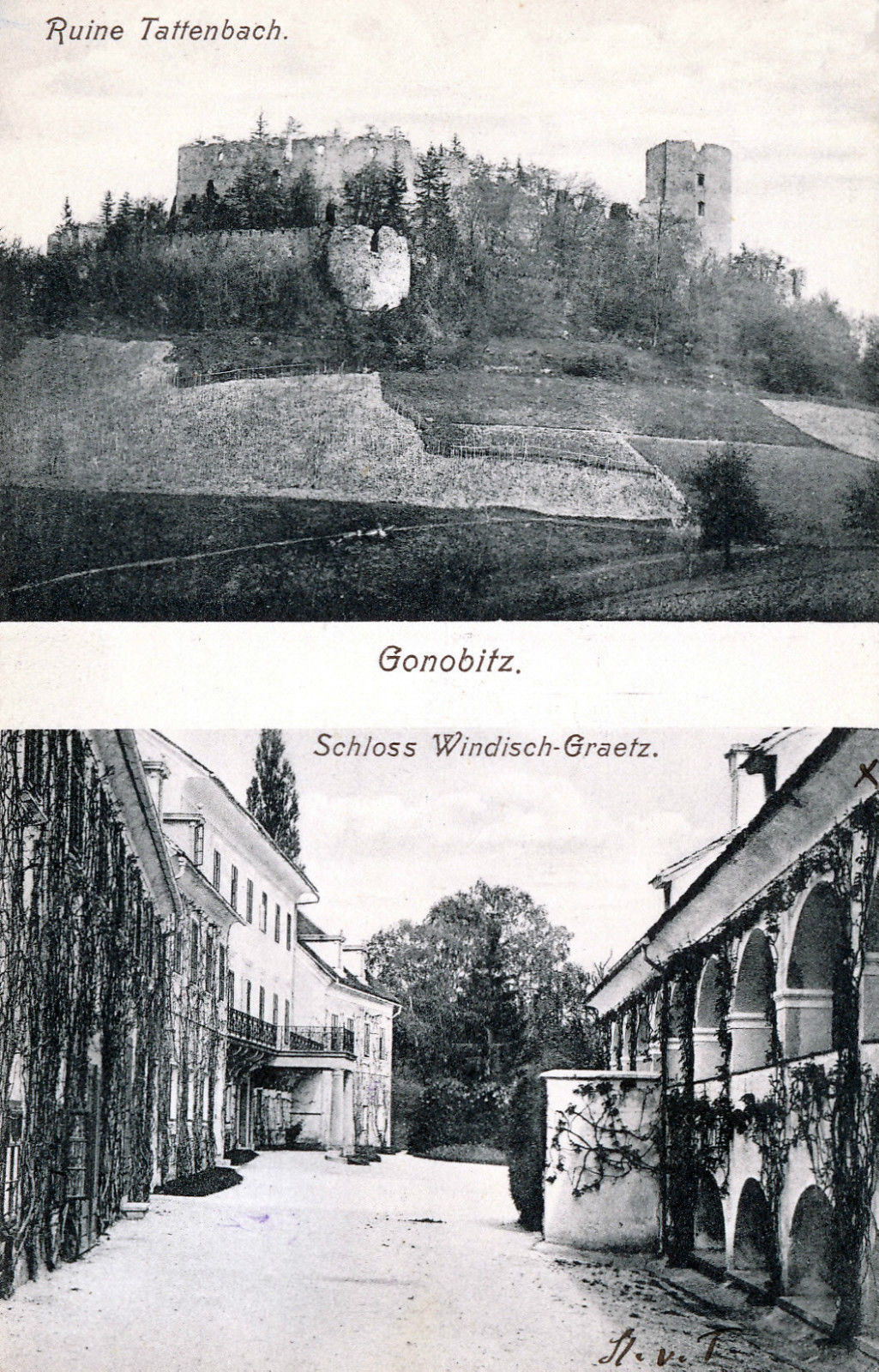 Postcard of Slovenske Konjice.